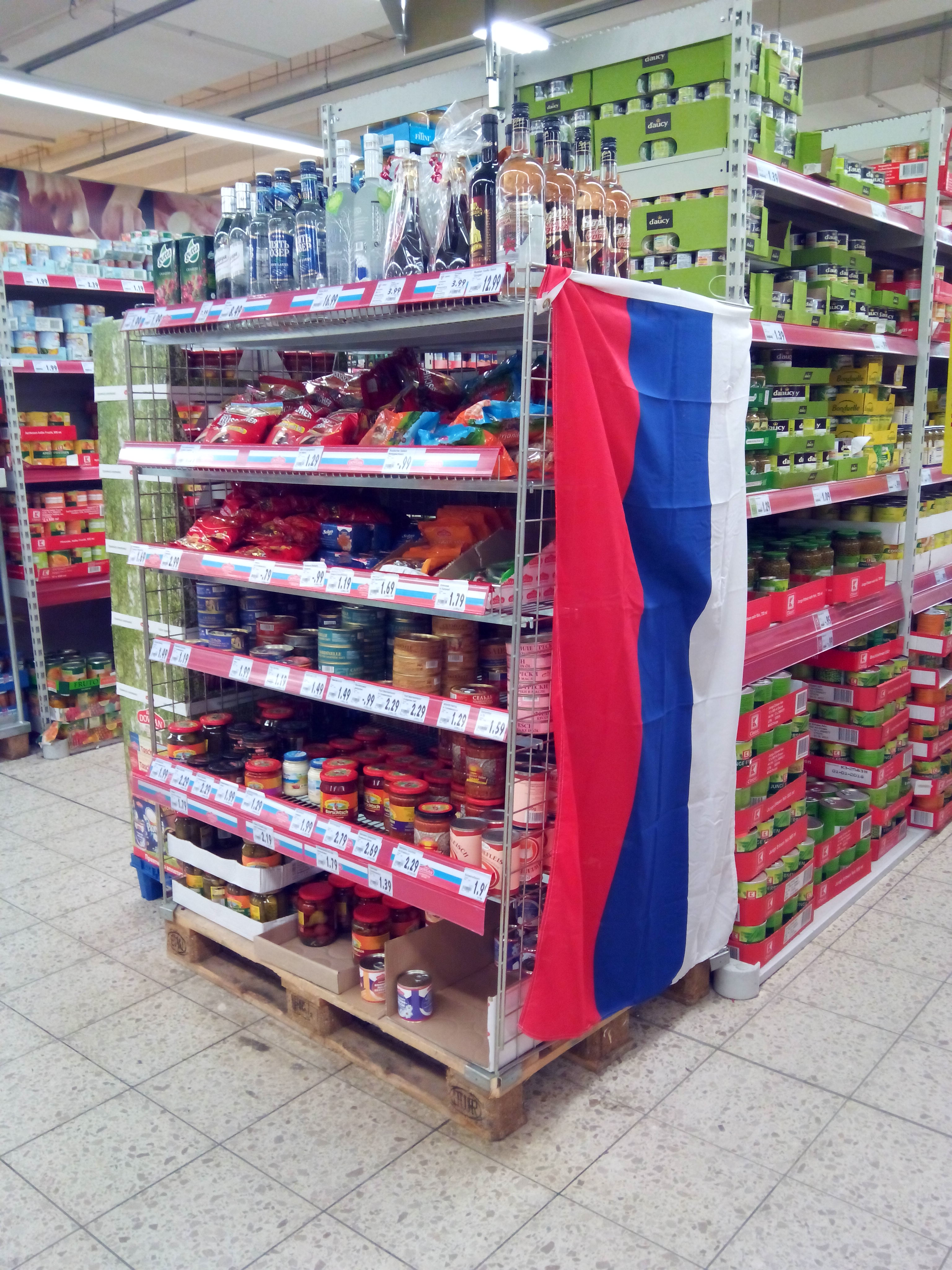 Russian food at Kaufland supermarket in Herford, Germany